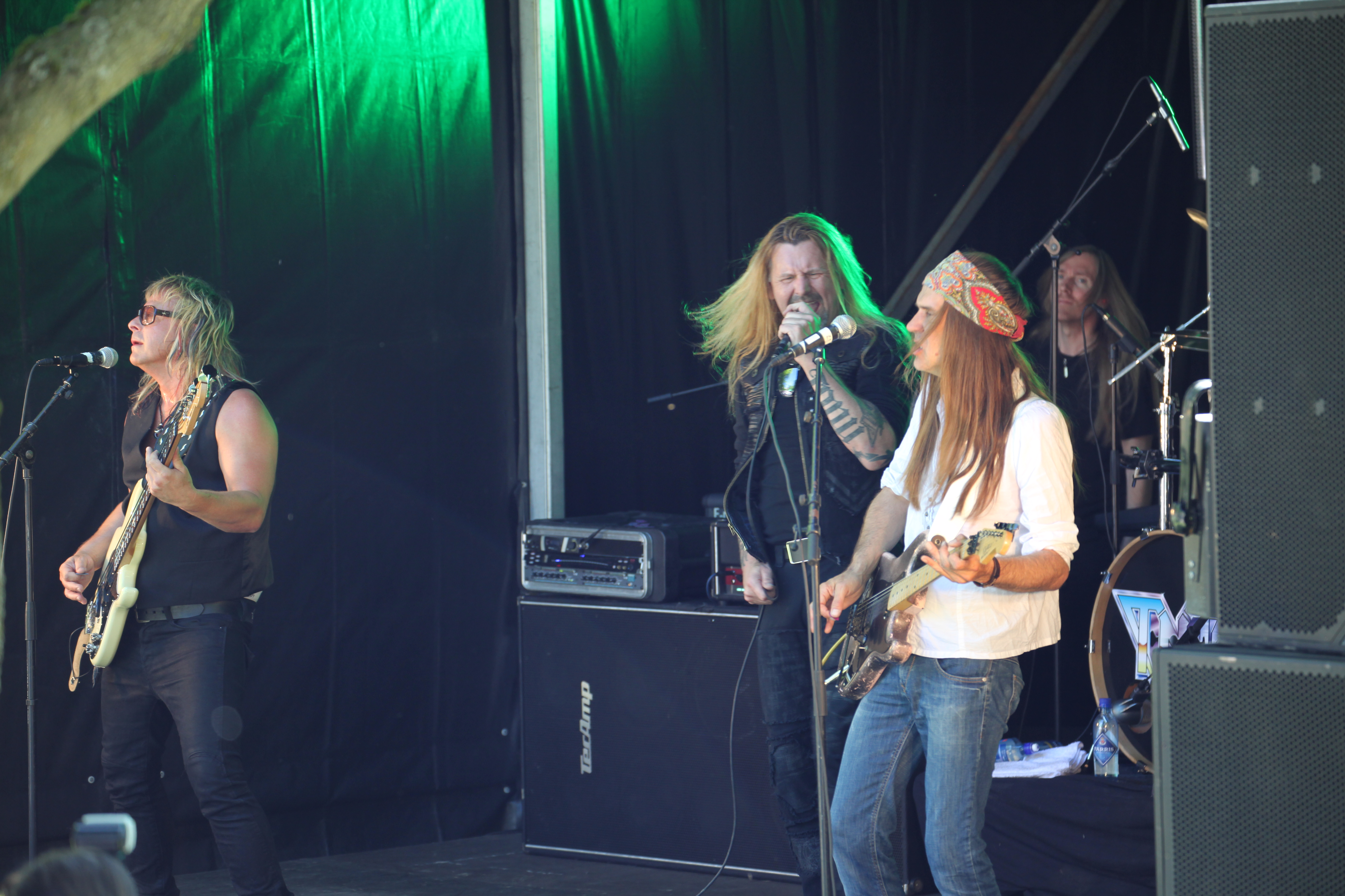 Norwegian hardrock band TNT playing at the park at headquarters of Det norske Veritas at Høvik outside Oslo, Norway, 19. june 2012